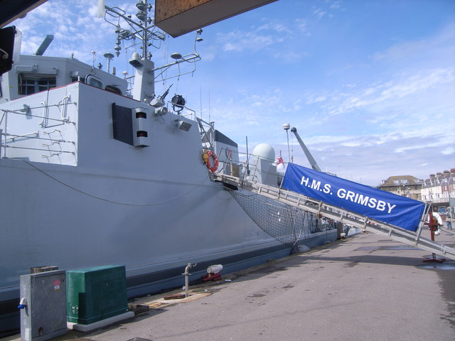 H.M.S. Grimsby docked in Weymouth